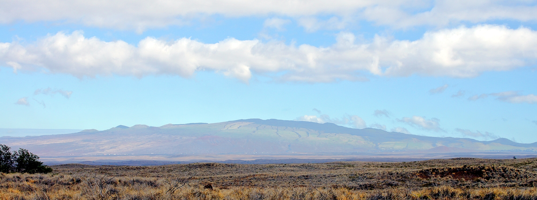 Kohala. Hawaii Island